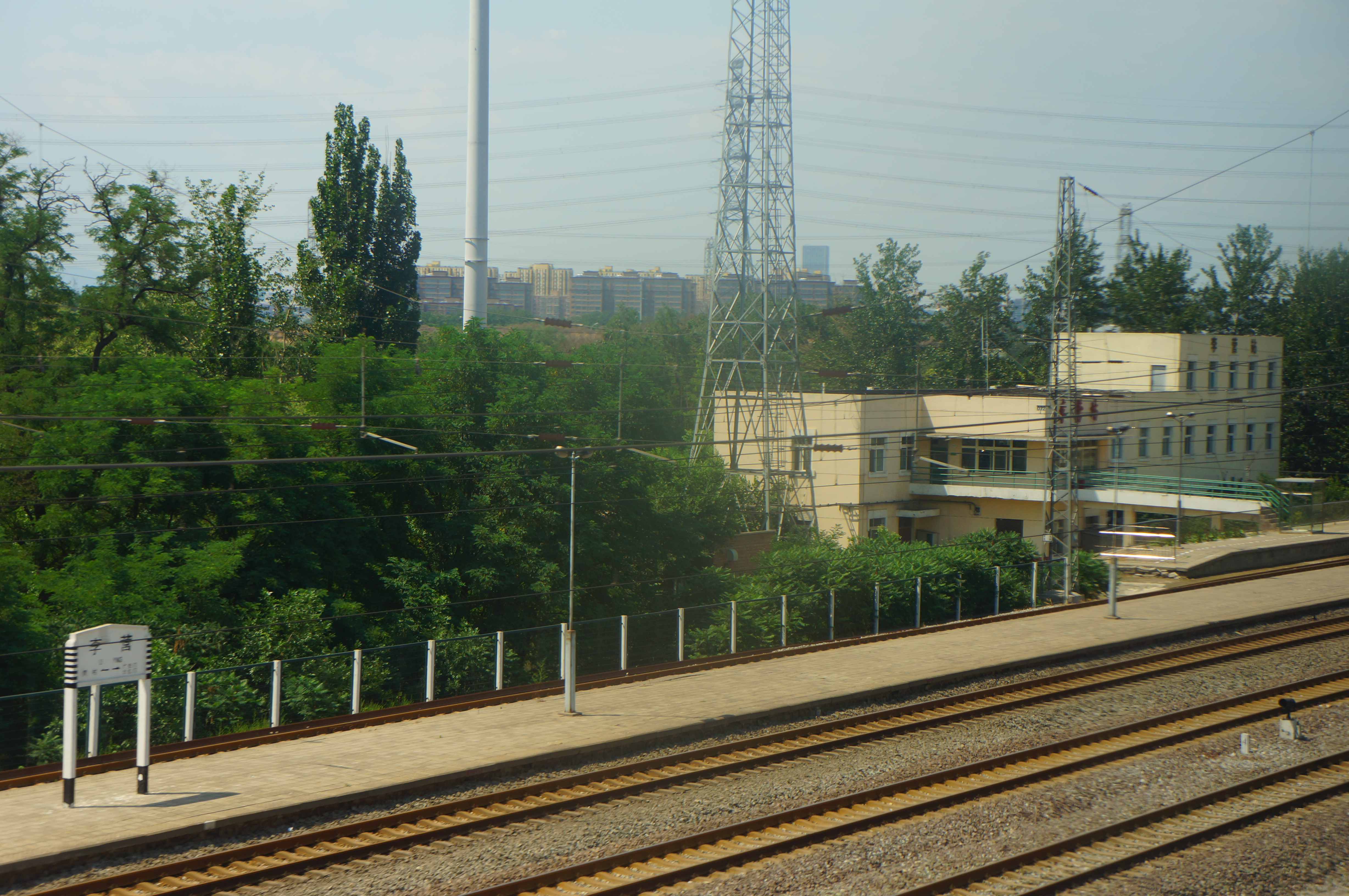 201606 Liying Station1